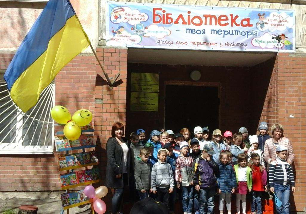 м. Хмельницький, Тернопільська 32, Бібліотека-філія №10 ім. Д. М. Брилінського